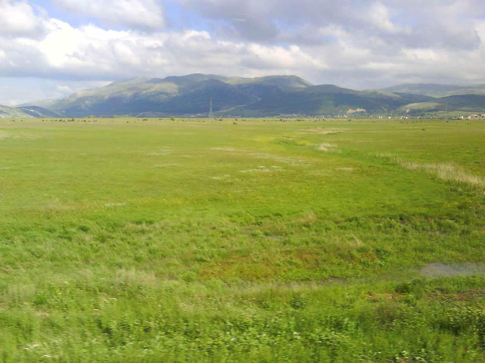 Duvno field near Tomislavgrad